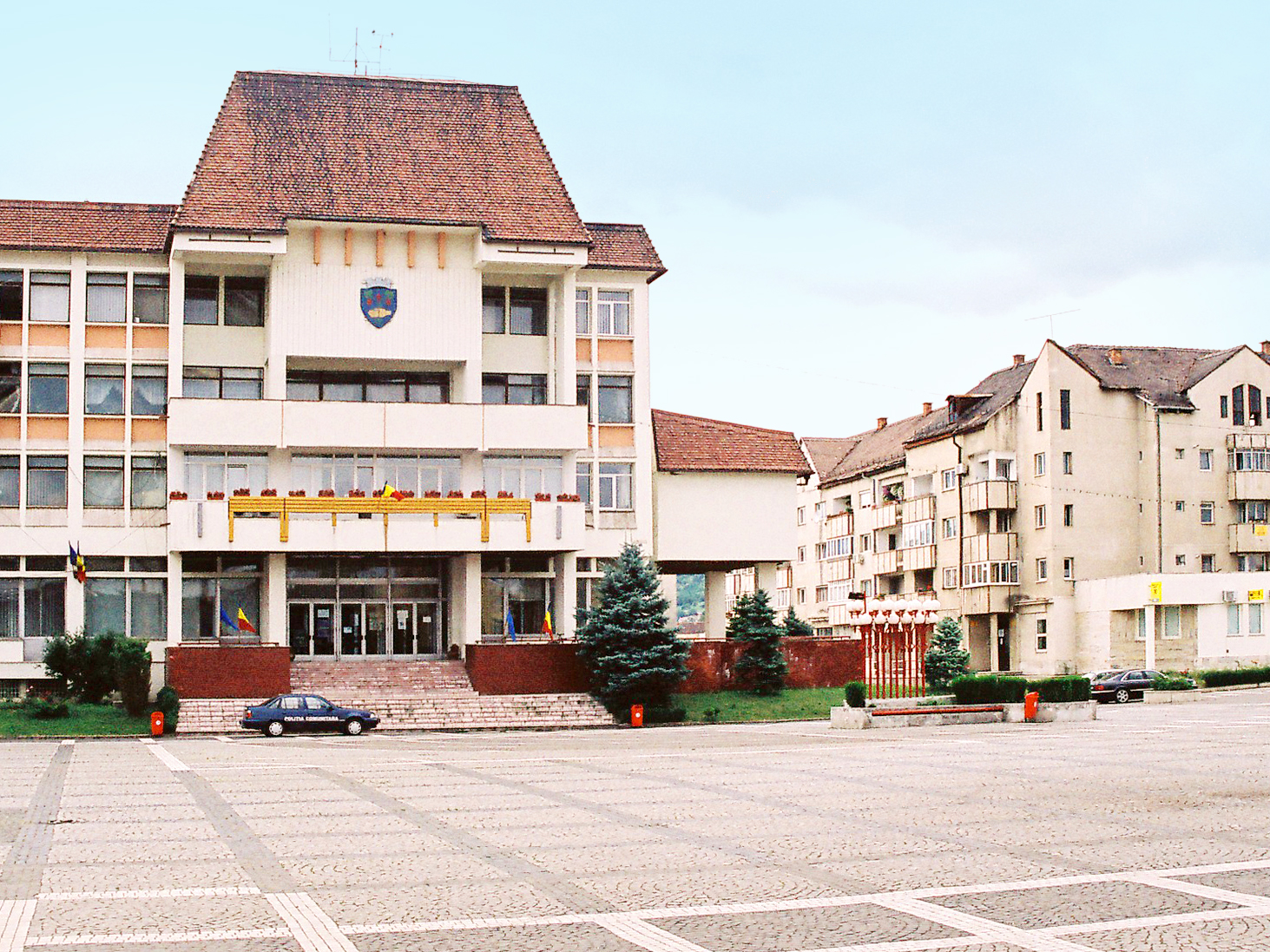 city hall of Mediaș (Mediasch/Medgyes), Romania